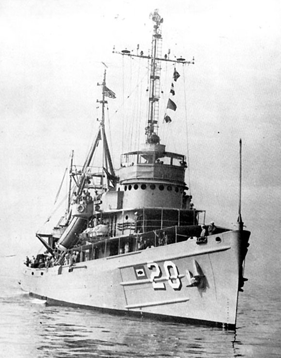 The U.S. Navy submarine rescue ship USS Skylark (ASR-20). Halftone reproduction of a photograph taken during the later 1950s or the 1960s. It was printed as part of Skylark's public relations effort.